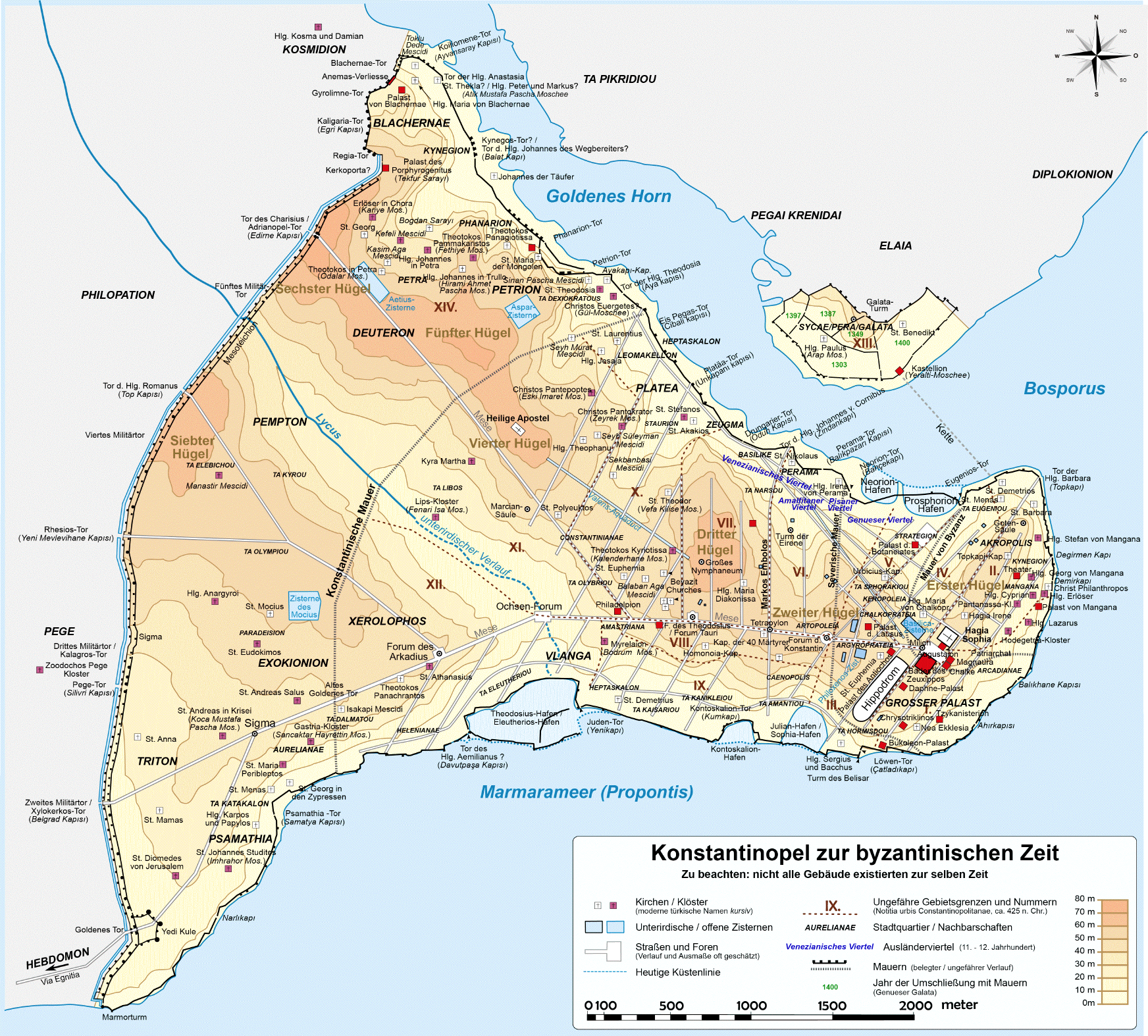 Topographical map of Constantinople during the Byzantine period. Main map source: R. Janin, Constantinople Byzantine. Developpement urbain et repertoire topographique. Road network and some other details based on Dumbarton Oaks Papers 54; data on many churches, especially unidentified ones, taken from the University of New York's The Byzantine Churches of Istanbul project. Other published maps and accounts of the city have been used for corroboration.